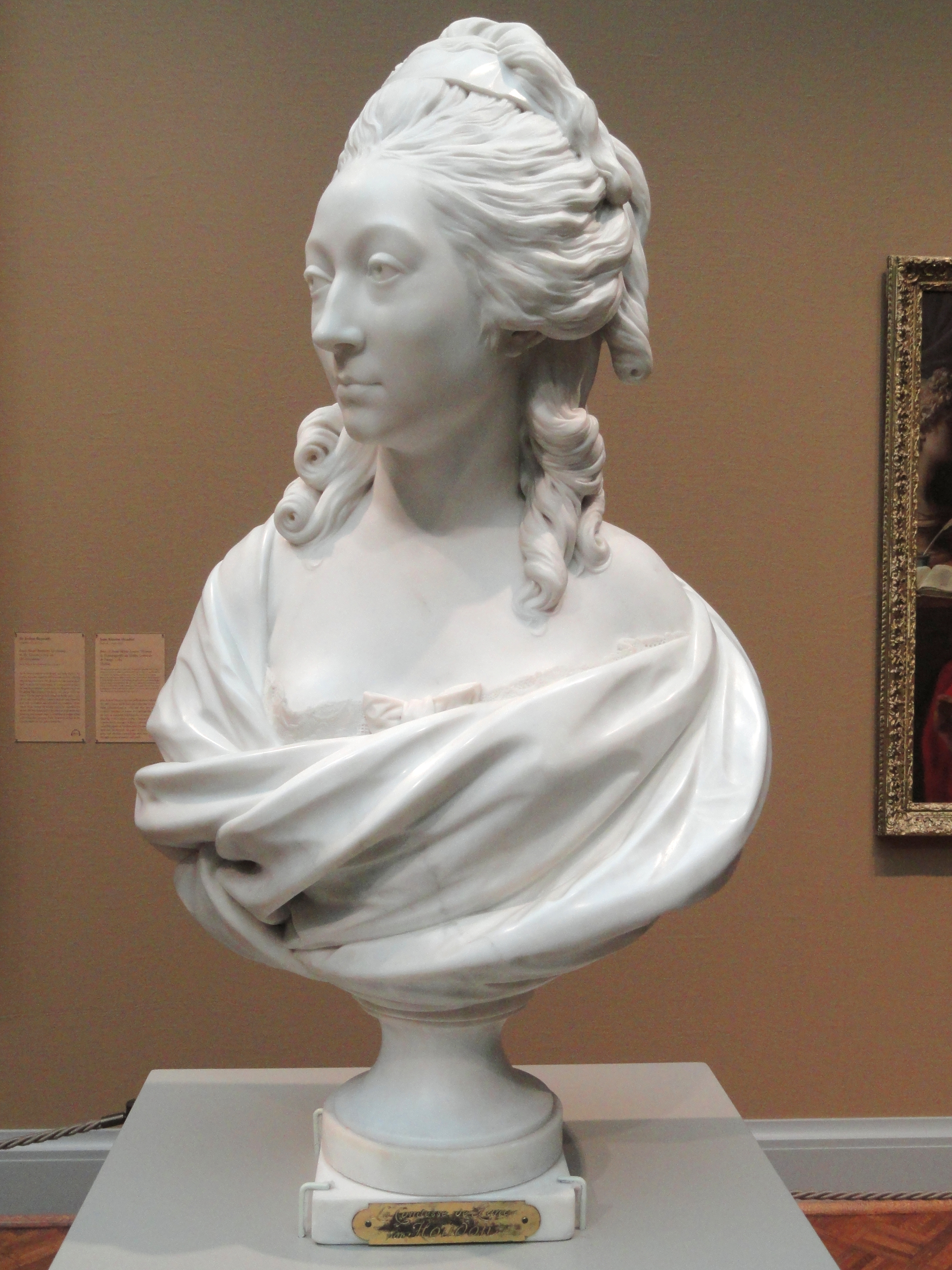 Exhibit in the Art Institute of Chicago, Chicago, Illinois, USA. This artwork is in the public domain because the artist died more than 70 years ago.